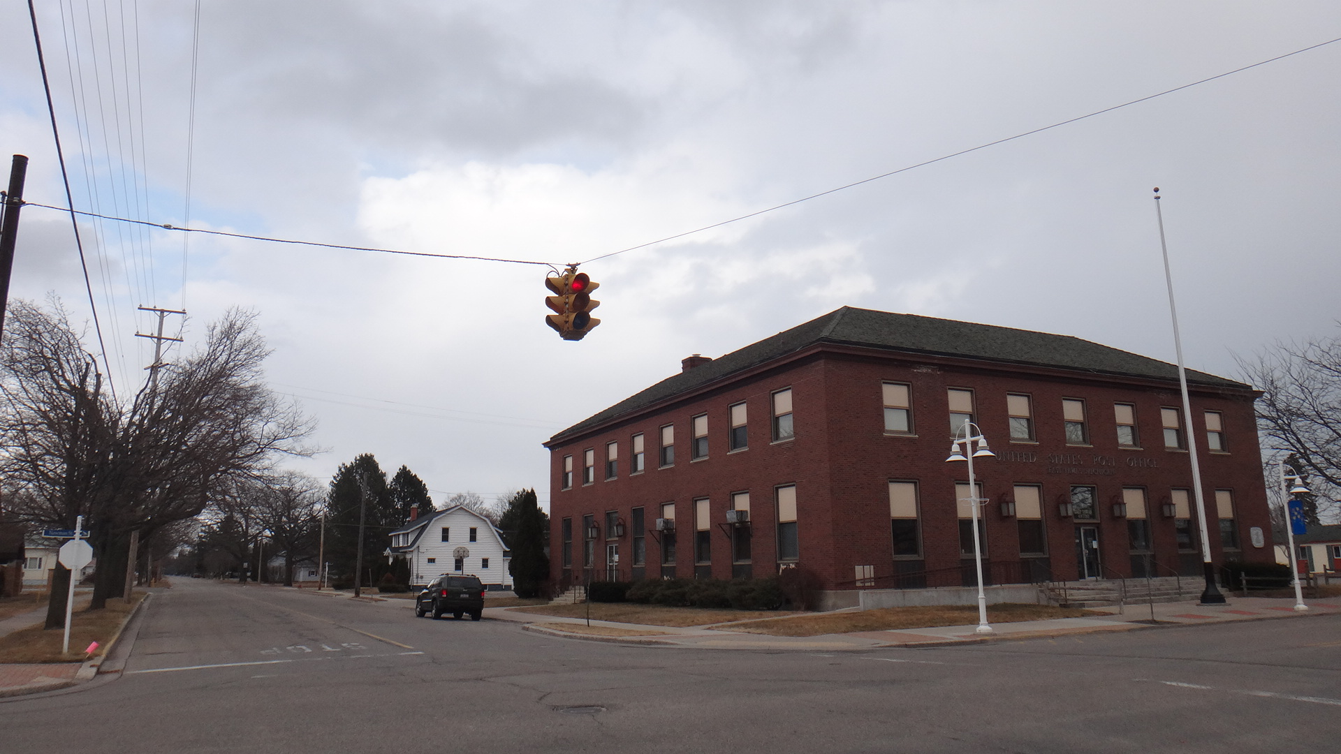 Vintage 4-way traffic signal in downtown East Tawas.